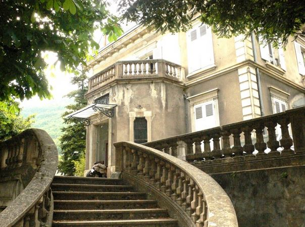 Escalier du jardin